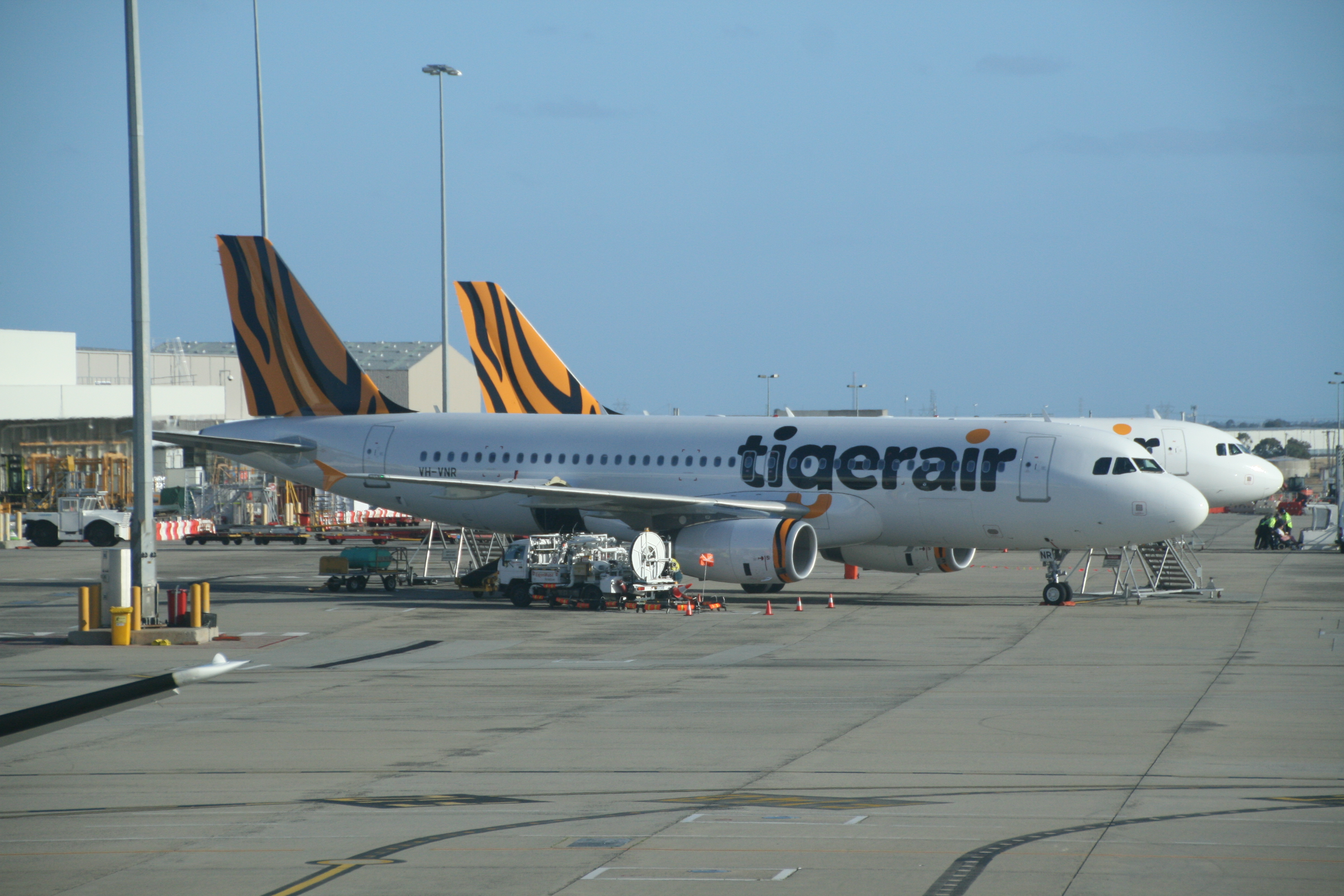 An Airbus A320 of Tigerair Australia on turnaround at Melbourne Airport. Digital image of VH-VNR taken by YSSYguy on 21 February 2014, for use in the Tigerair Australia article.